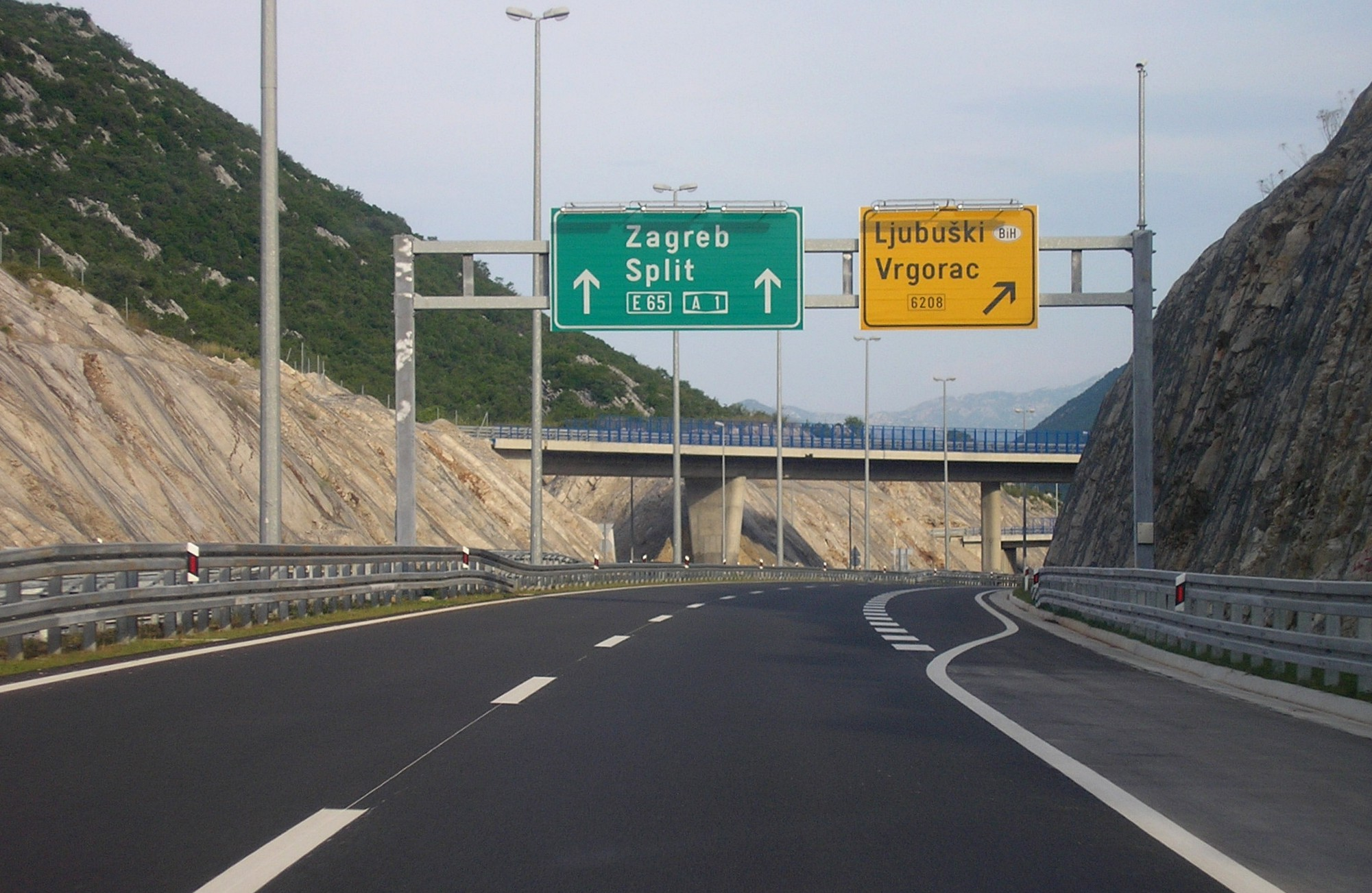 Vrgorac interchange on A1 highway in Croatia